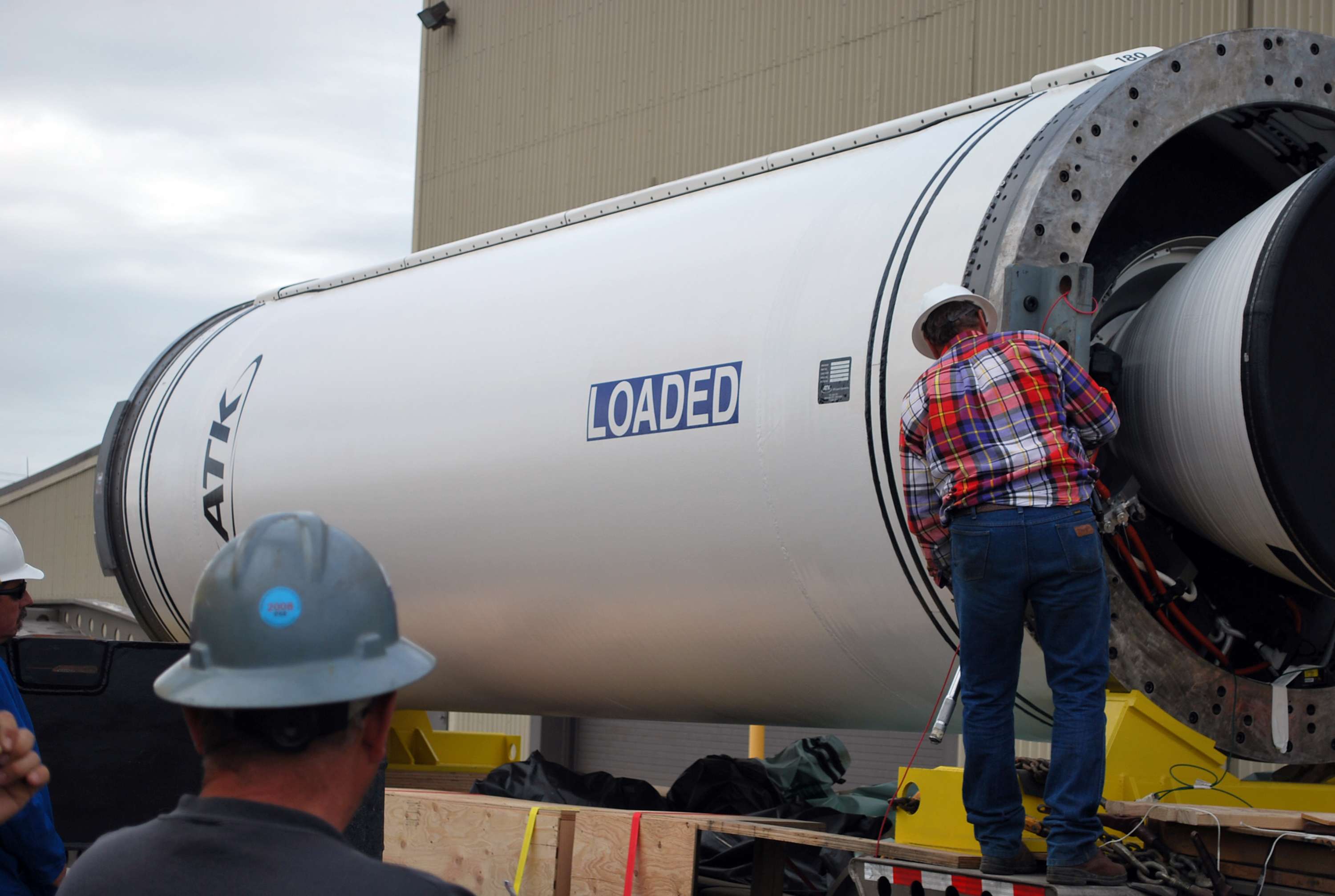 At Vandenberg Air Force Base in California, a worker secures a crane on the Taurus XL Stage 0 motor. The motor will be lifted onto a flatbed truck and transported to Orbital Sciences' Hangar 1555. The Taurus XL will launch NASA's Orbiting Carbon Observatory, or OCO, spacecraft targeted for Jan. 15. The OCO is a new Earth-orbiting mission sponsored by NASA's Earth System Science Pathfinder Program.